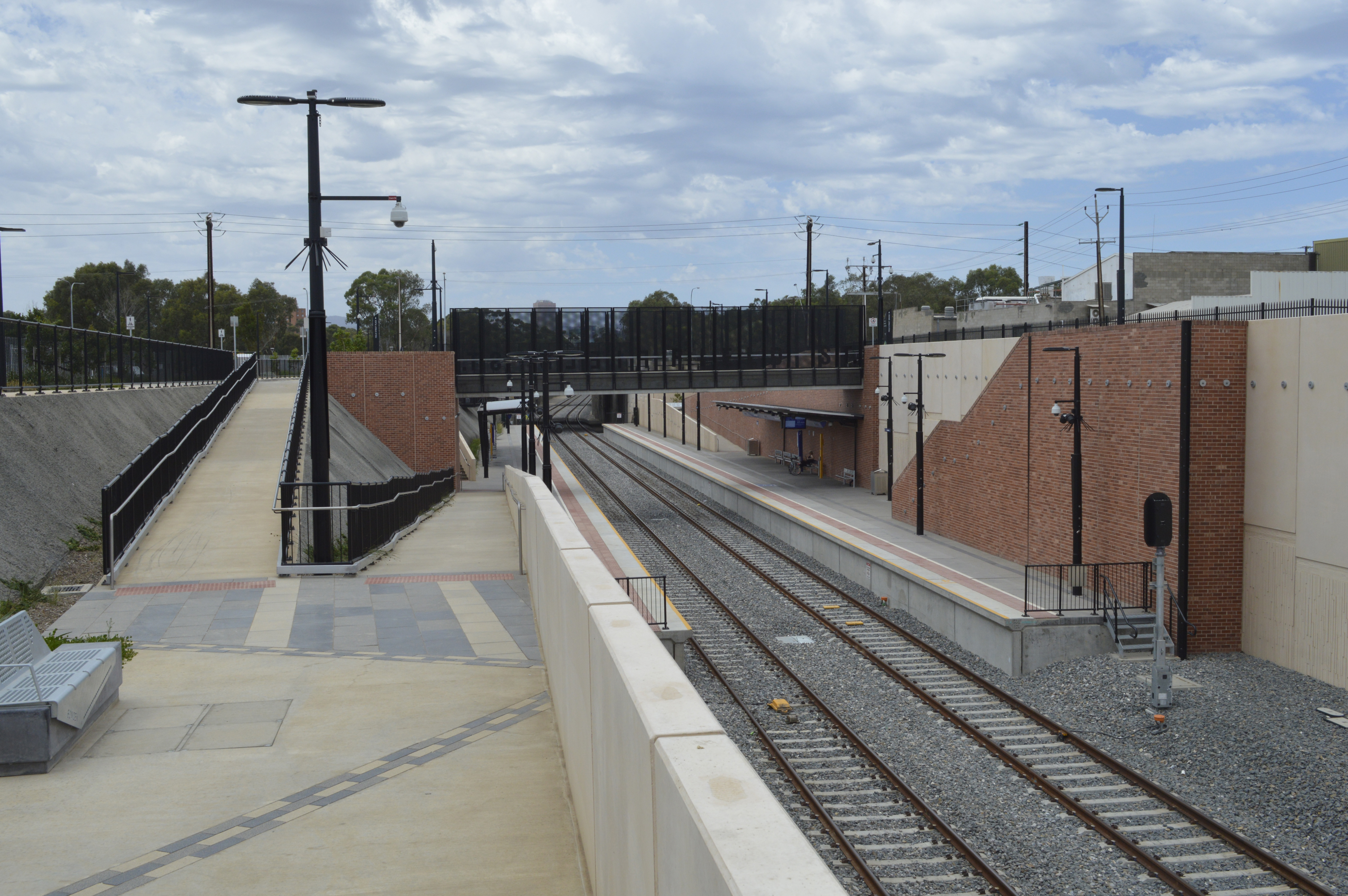 The new Bowden station on the Outer Harbor & Grange lines, opened January 2018.